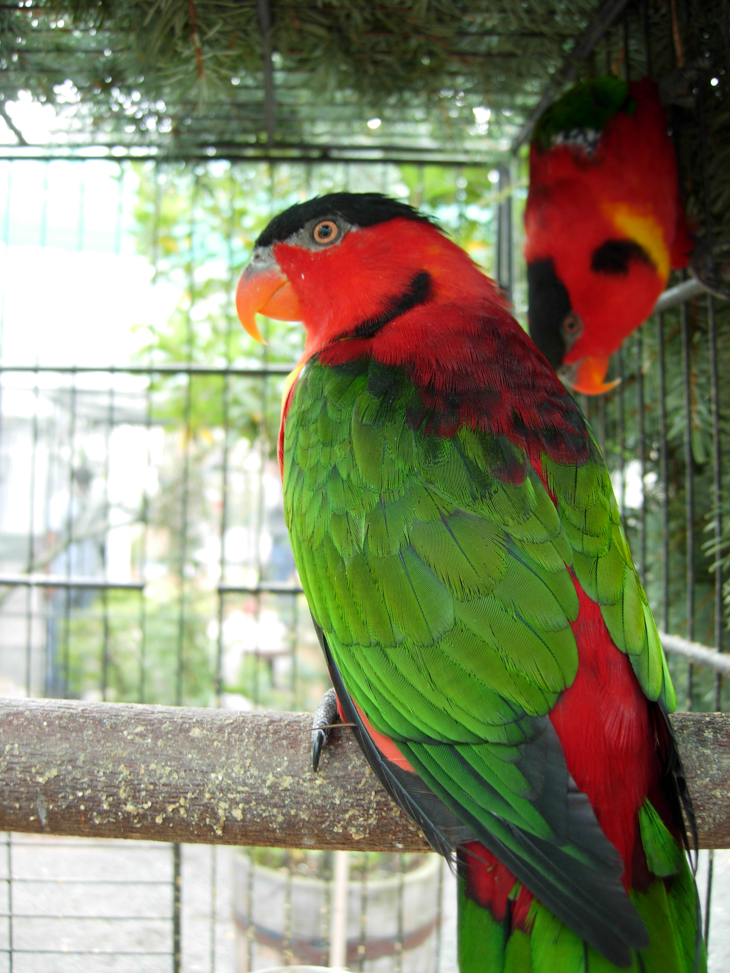 Family Psittacidae: Lorius chlorocercus